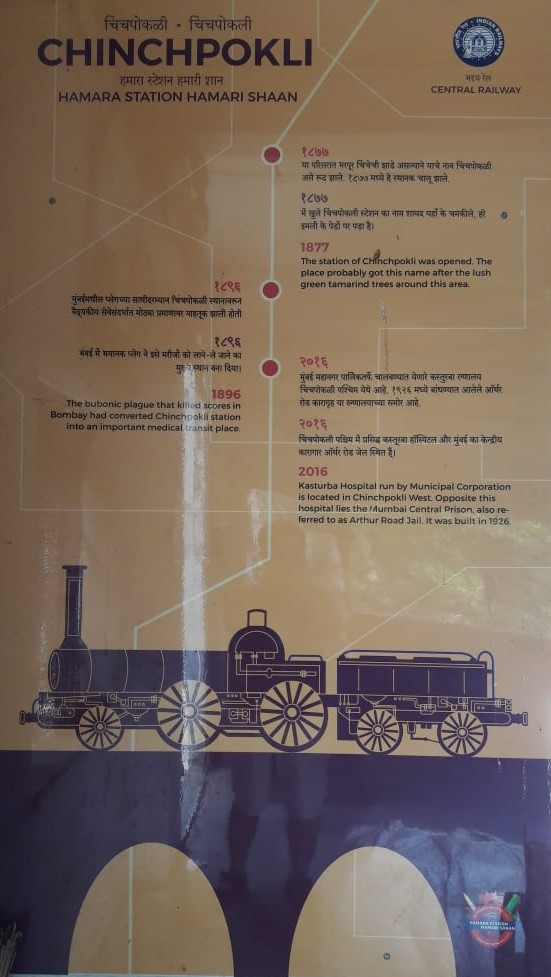 The Information Banner at Chinchpokli Railway Station, Mumbai, India.